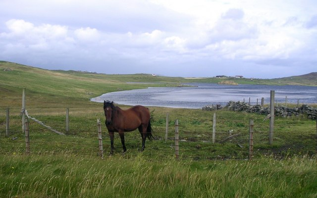 Loch of Benston View of the west bay in the loch of Benston. Fine brown horse and fine brown trout. Shetland!